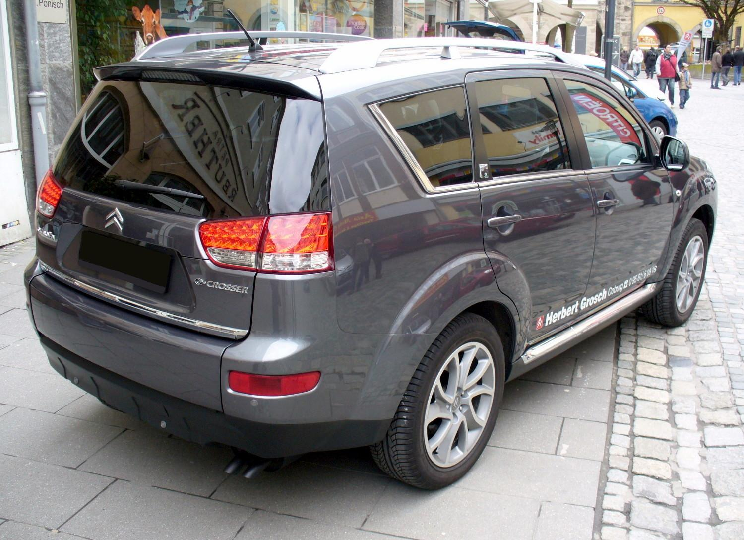 Citroën C-Crosser